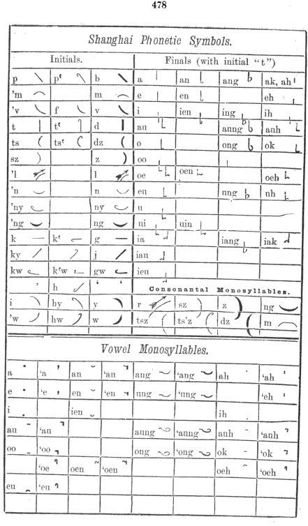 A table showing Shanghai Phonetic Symbols from the article Phonetic Representation of Chinese Sounds BY REV. J. A, SILSBY, published in The Chinese Recorder, Volume 24. The Shanghai Phonetic Symbols are a writing system for Shanghainese.